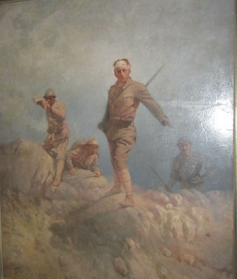 "We were not defeated". Painting on the Asia Minor Campaign, War Museum, Athens, GreeceTürkçe: Yunanların gözünden Türk Kurtuluş Savaşı'nın Batı Cephesi ("Küçük Asya Felaketi")